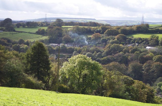 Pen-deri farm. Argoed, Caerphilly. Pen-deri farm and the hamlet of Gwrhay taken from on the Sirhowy Valley Walk climbing up from Argoed. On the skyline, five miles to the south, can be seen Mynydd Machen which is also on the same long distance path.